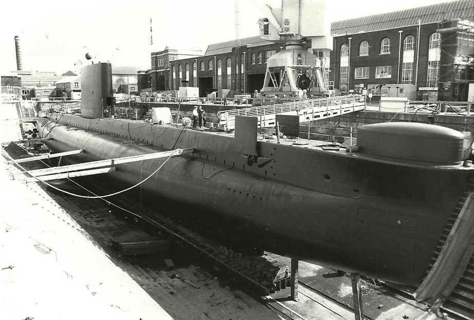 "O" or "Oberon" Class submarine "HMS Osris", 2,030 tons, launched 1963, commissioned 1964 She fought in the Dulf War Pictured at the Portsmouth Navy Day, 08/82 Scanned photograph taken with a Canon AE-1 Program Pictured at the Portsmouth Navy Day, 08/82 Scanned photograph taken with a Canon AE-1 Program